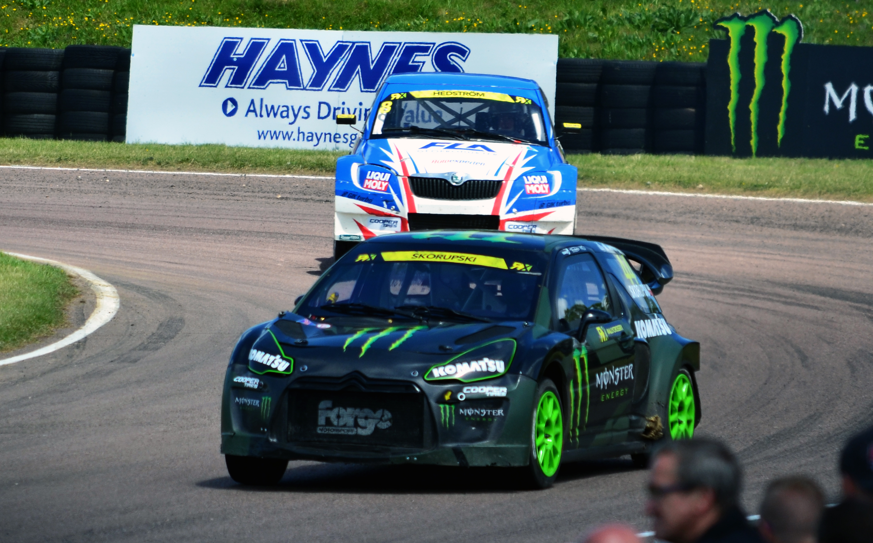 Krzysztof Skorupski leads Peter Hedström out of the North Bend hairpin at Lydden Hill during a heat race of round 2 of the 2014 FIA World Rallycross Championship.